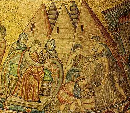 Joseph (Mosaic in Basilica di San Marco)